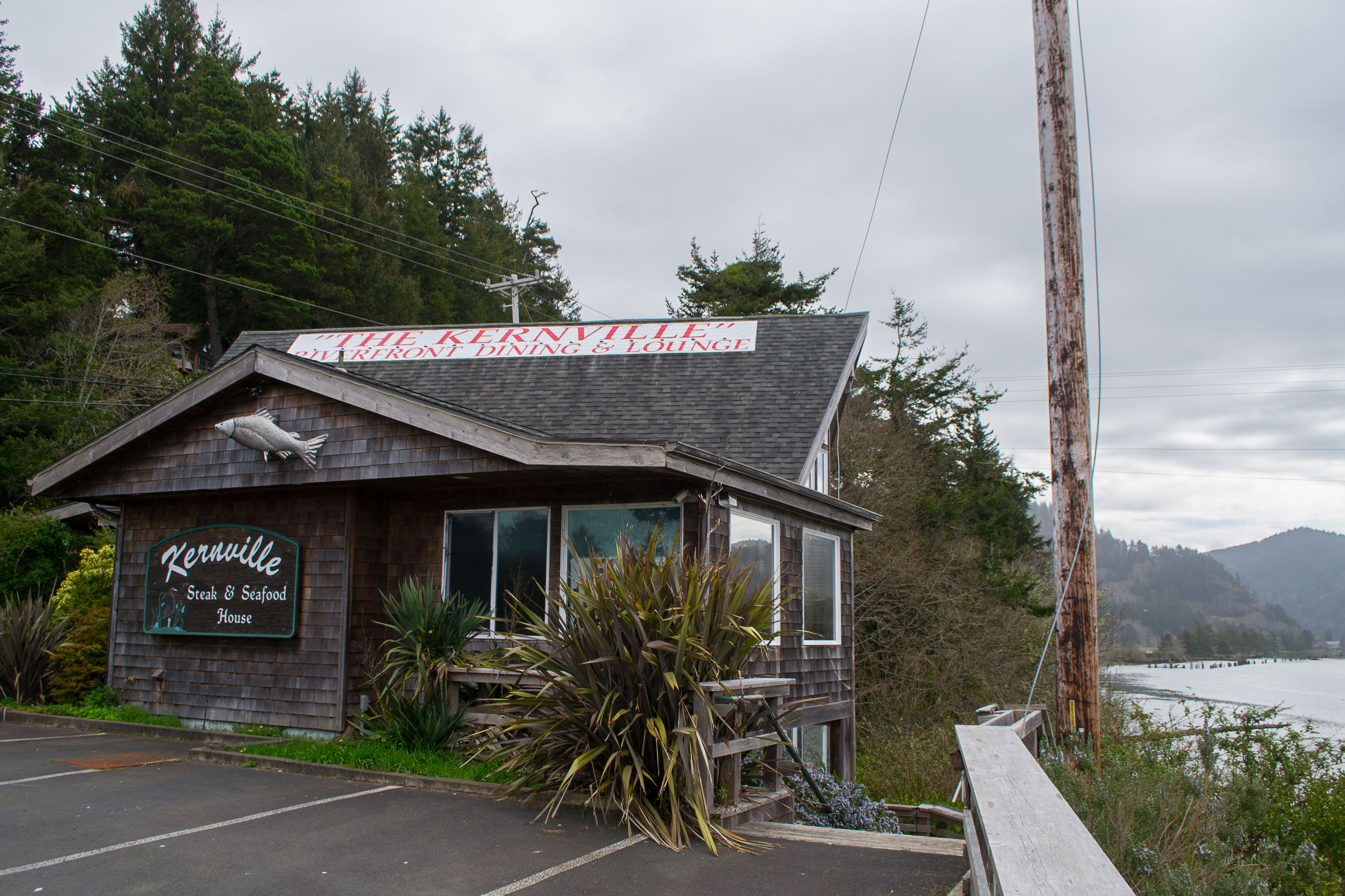 One of the few structures in Kernville, Oregon